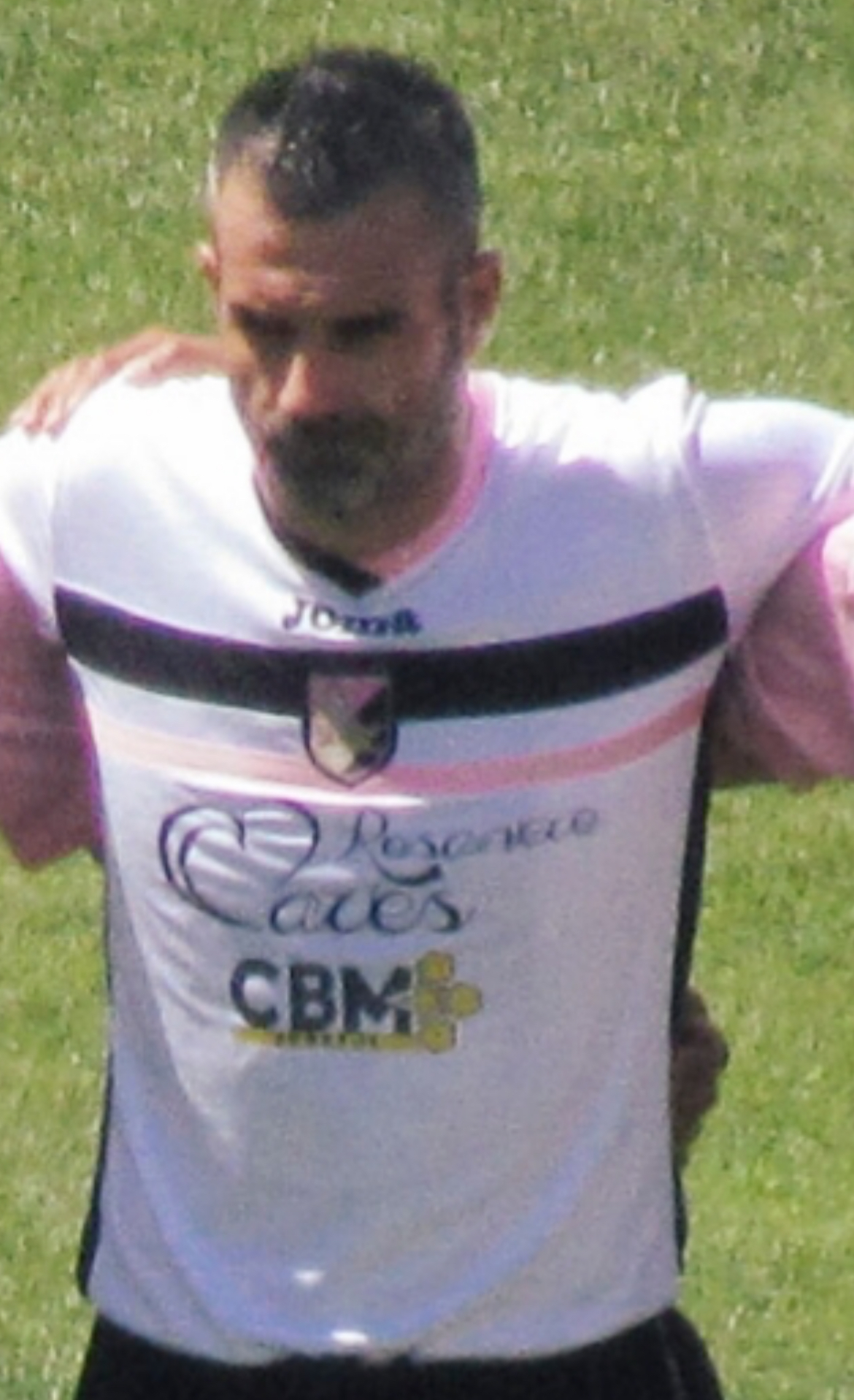 Sorrentino with Palermo in 2015